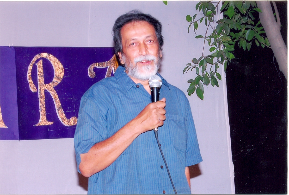 Prabhat Patnaik speaking at the CESP farwell party in JNU, New Delhi, 2006.